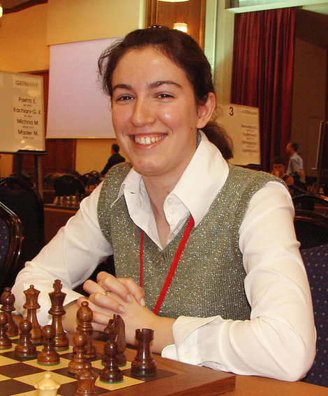 WGM Yelena Dembo (Greece), Heraklion 2007